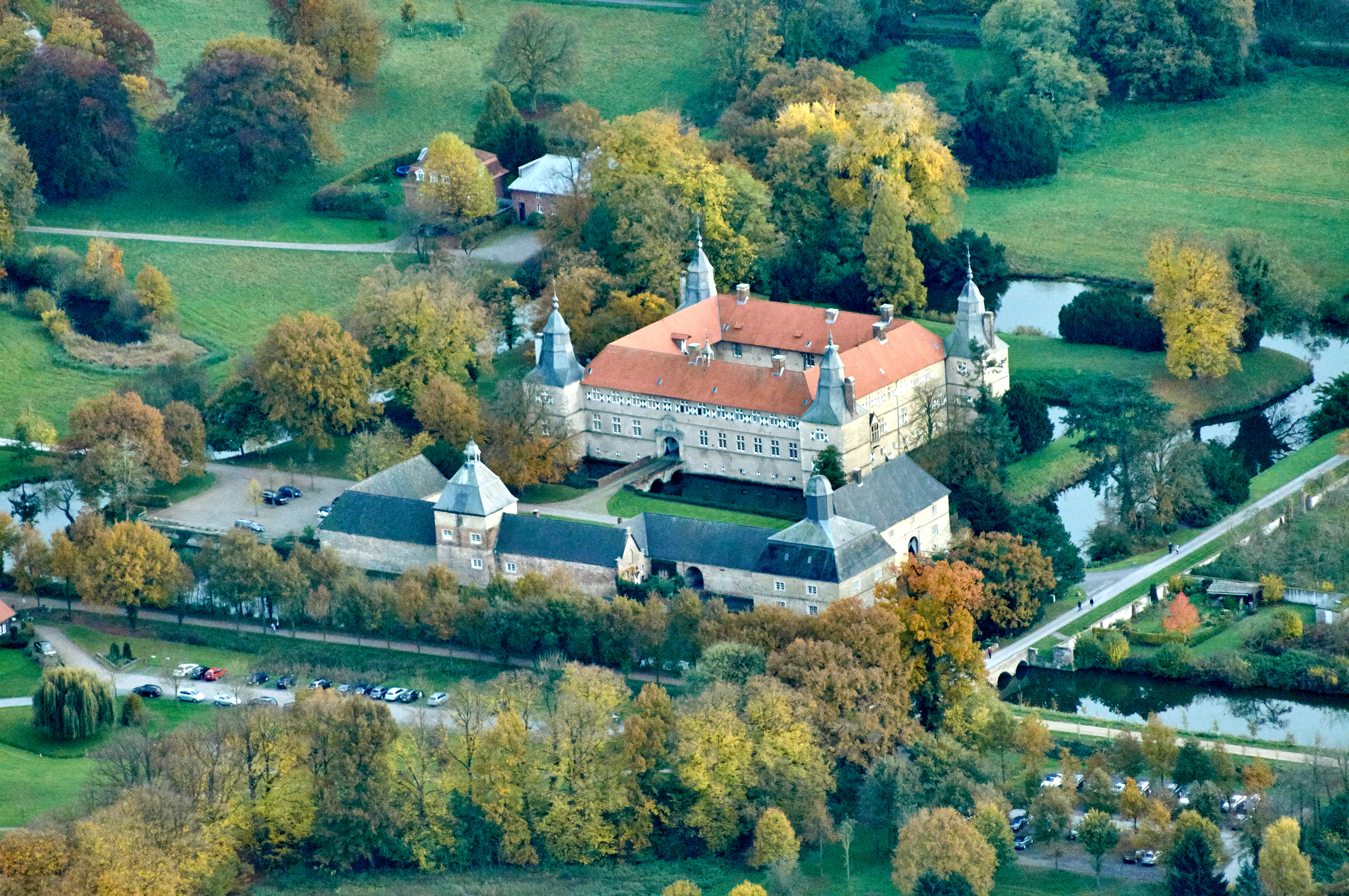 Westerwinkel castle, Ascheberg, North Rhine-Westphalia, Germany